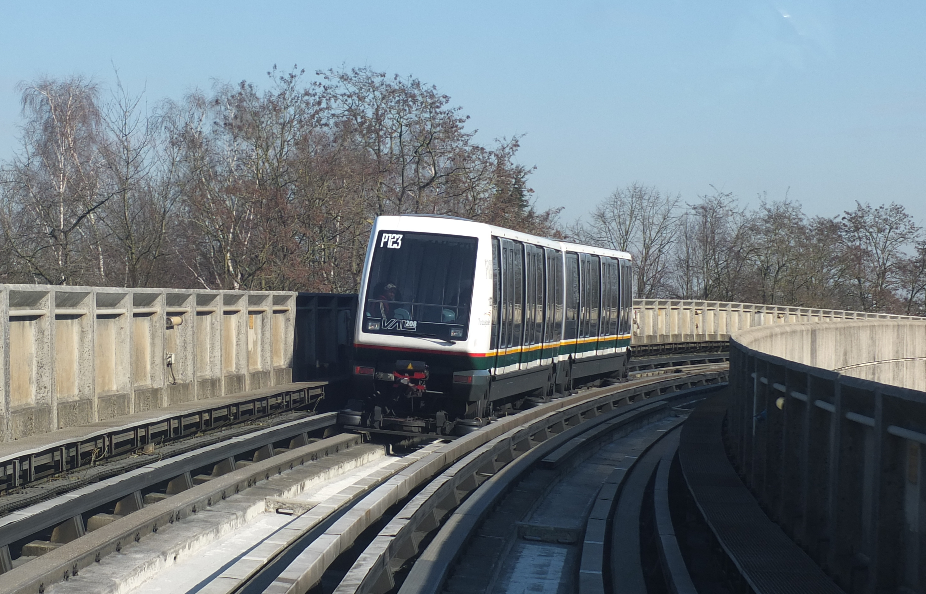 Subway train of the type VAL 208 (Véhicule automatique léger) of the Lille metro on line 1.